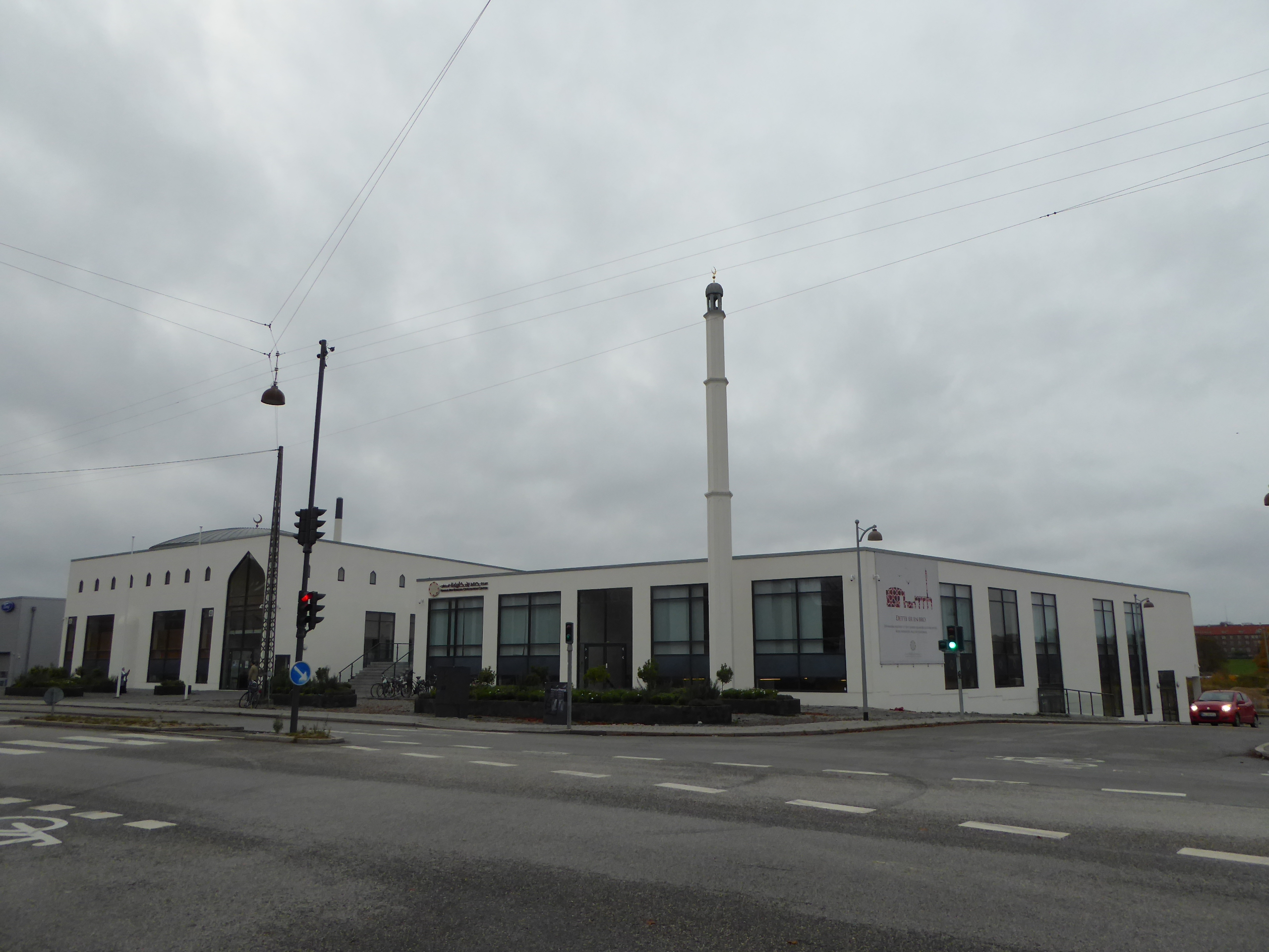 The mosque and Islamic cultural center Hamad Bin Khalifa Civilisation Center at Rovsingsgade in Nørrebro in Copenhagen.